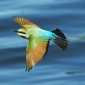 Bird, Rainbow Bee-eater, Merops ornatus.